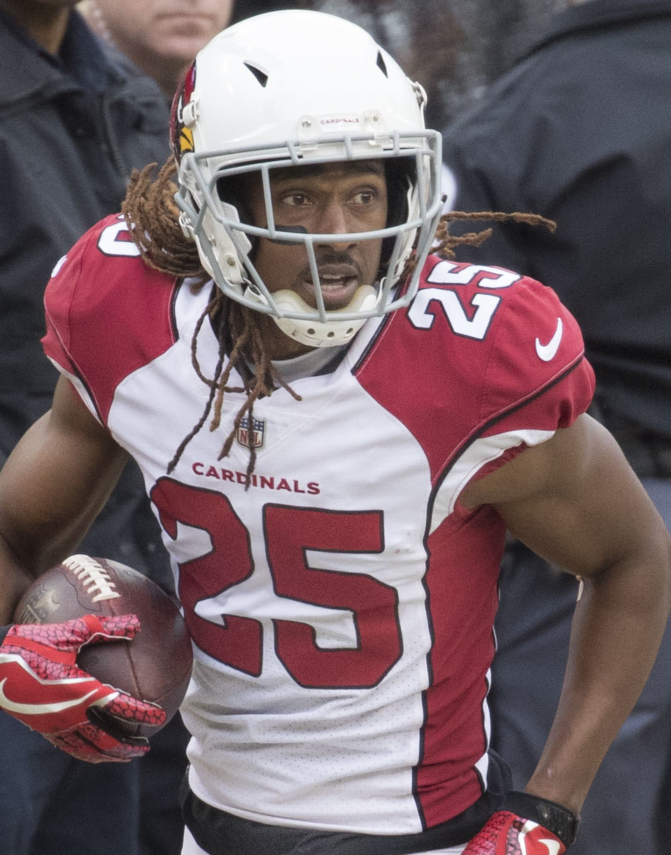 Cardinals at Redskins 12/17/17